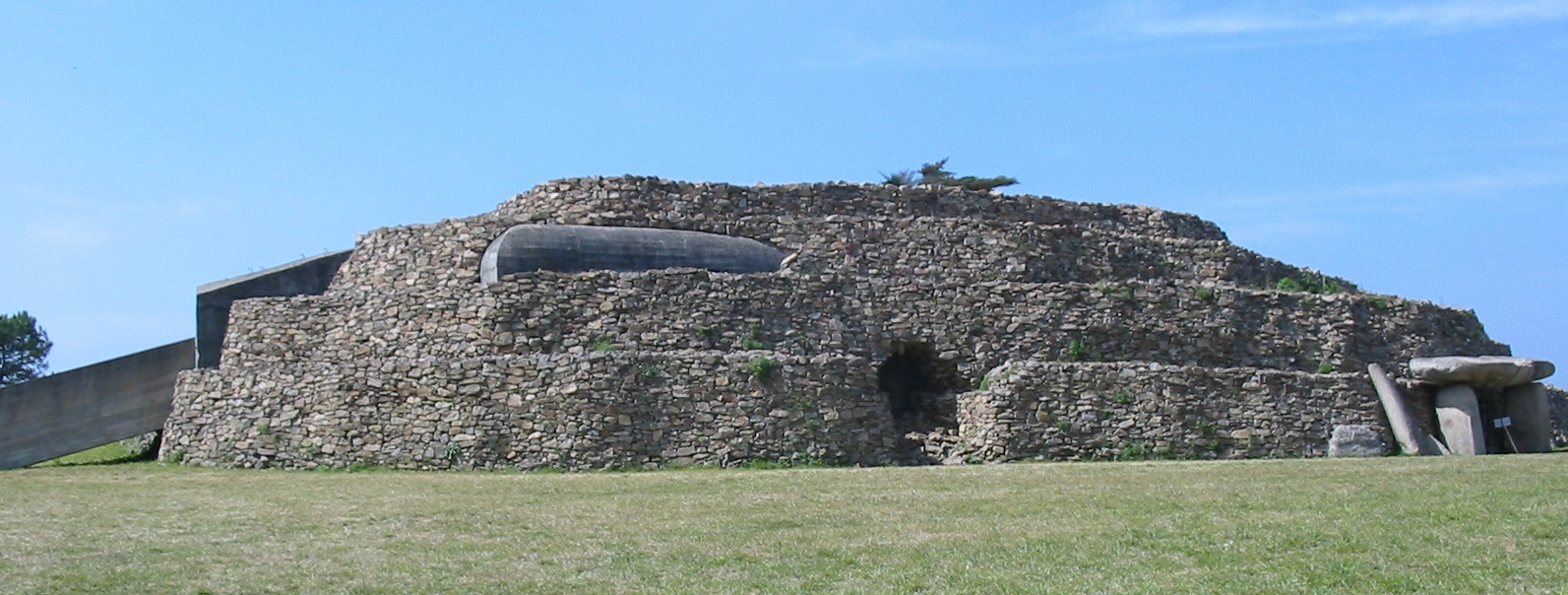 Le Petit Mont, cairn dolmen, in Rhuys peninsula, Morbihan